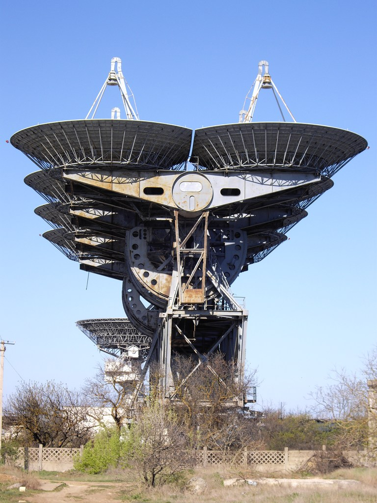 ADU-1000 radio telescope